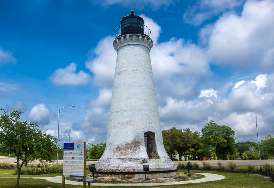 "Round Island Lighthouse, Pascagoula, Mississippi. First erected on the south side of Round Island off the Gulf Coast of Mississippi in 1859, Round Island Lighthouse was repeatedly damaged and compromised by numerous storms and hurricanes (including Hurricanes Georges and Katrina). Historic Round Island Lighthouse has been moved, relocated and restored through the support of the Mississippi Department of Archives and History, Community Development Block Grants, Tideland Trust Fund Grants, local sponsorships and Public Assistance provided by FEMA".